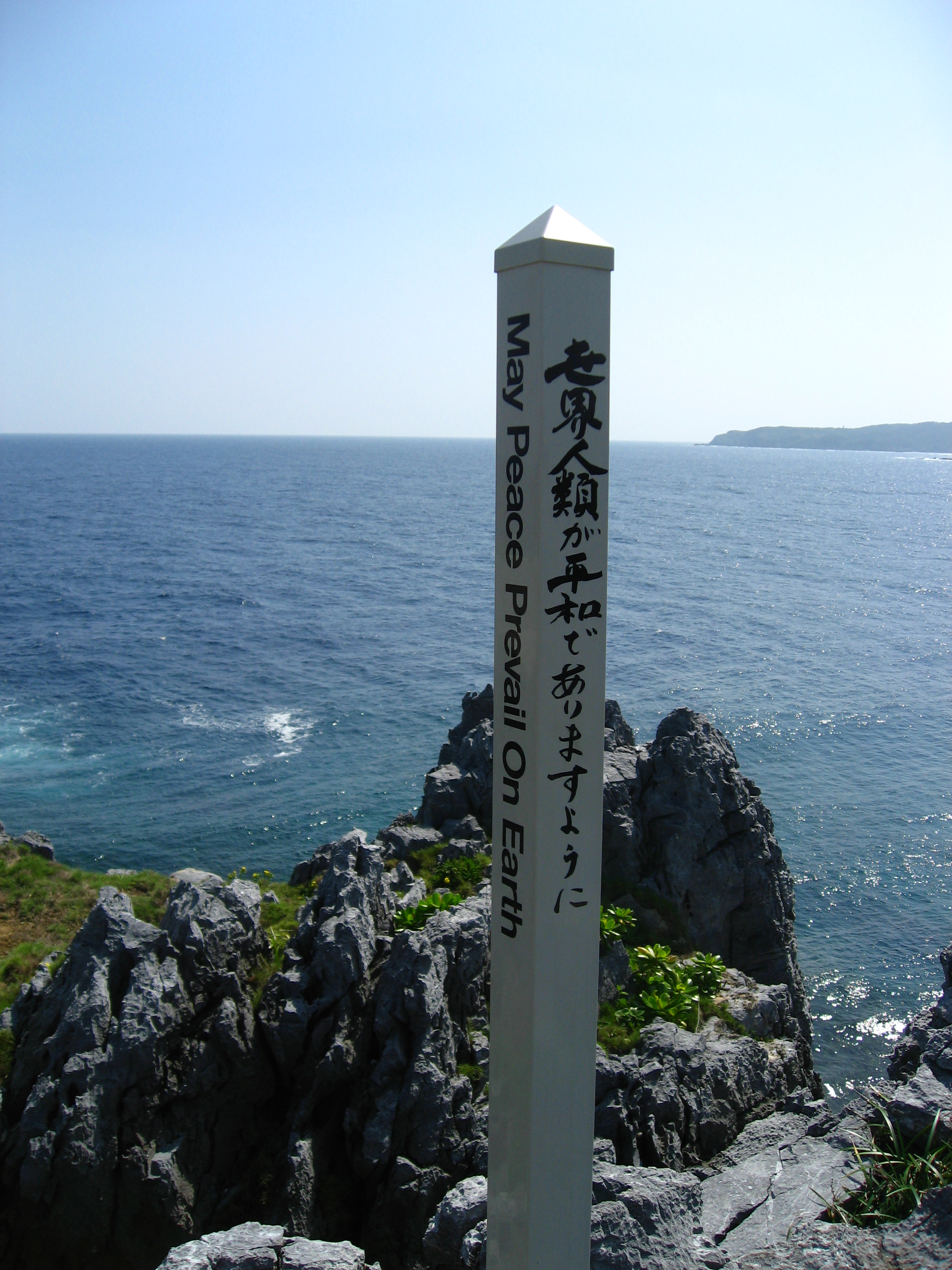 The peace pole subscribed "May peace prevail on earth", located in the Cape Hedo, Kunigami, Okinawa. Usually these are found near Buddhist temples; I've never seen one in such a spectacular location before. (the other two sides are in French and Spanish)